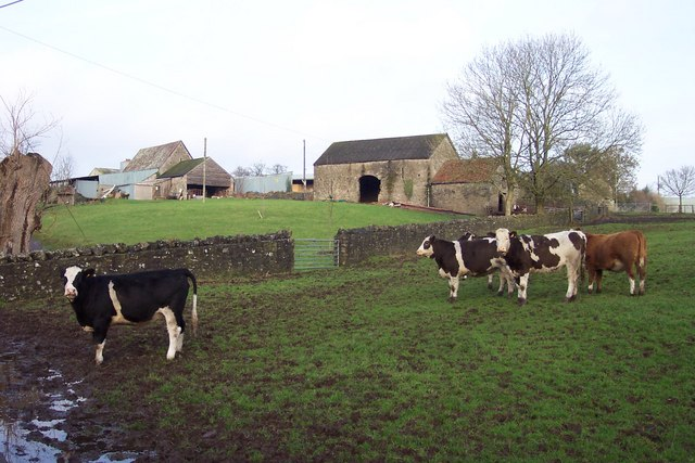 Howick Farm with some of the stock